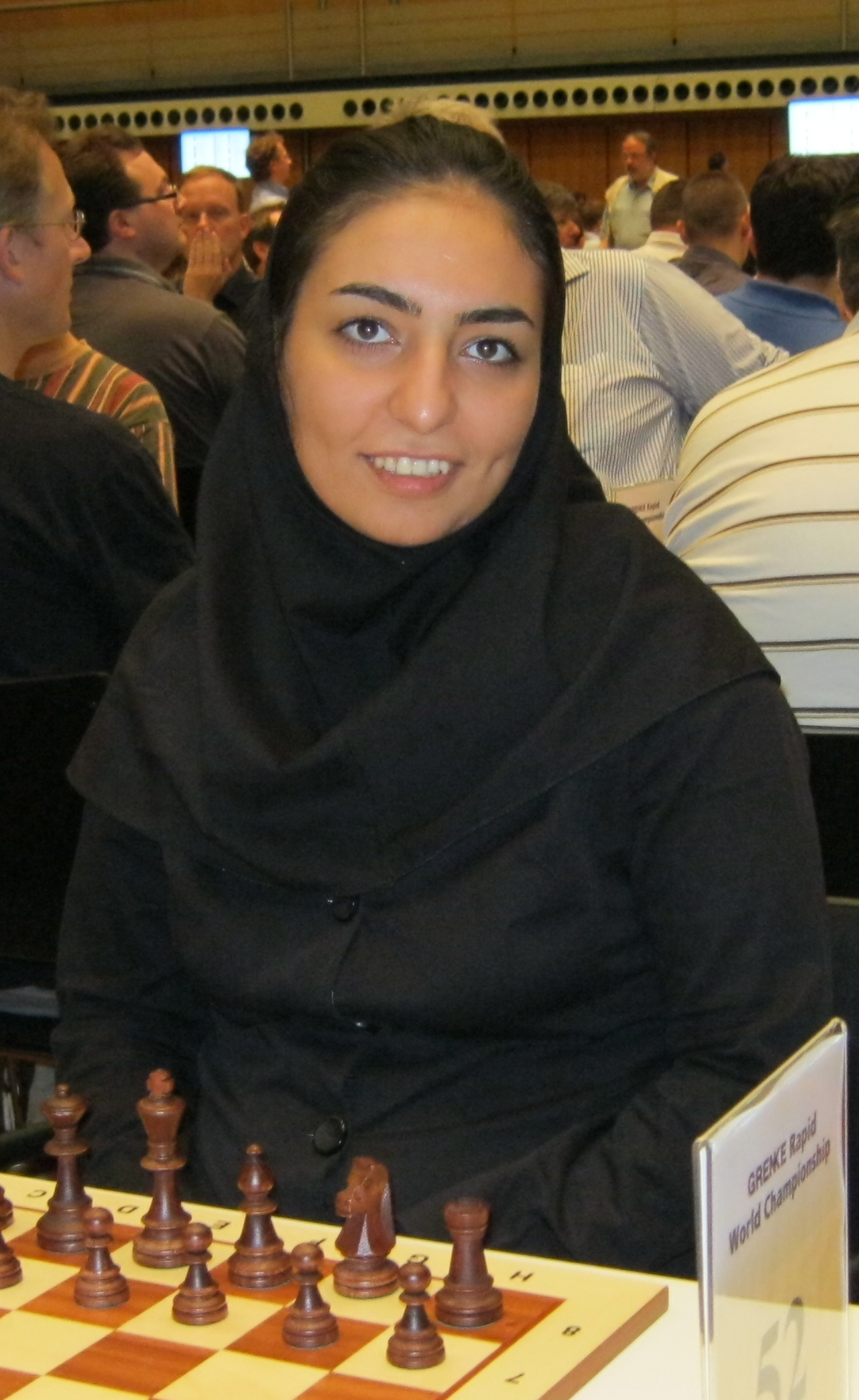 Shadi Paridar, chess player (woman grandmaster) from Iran